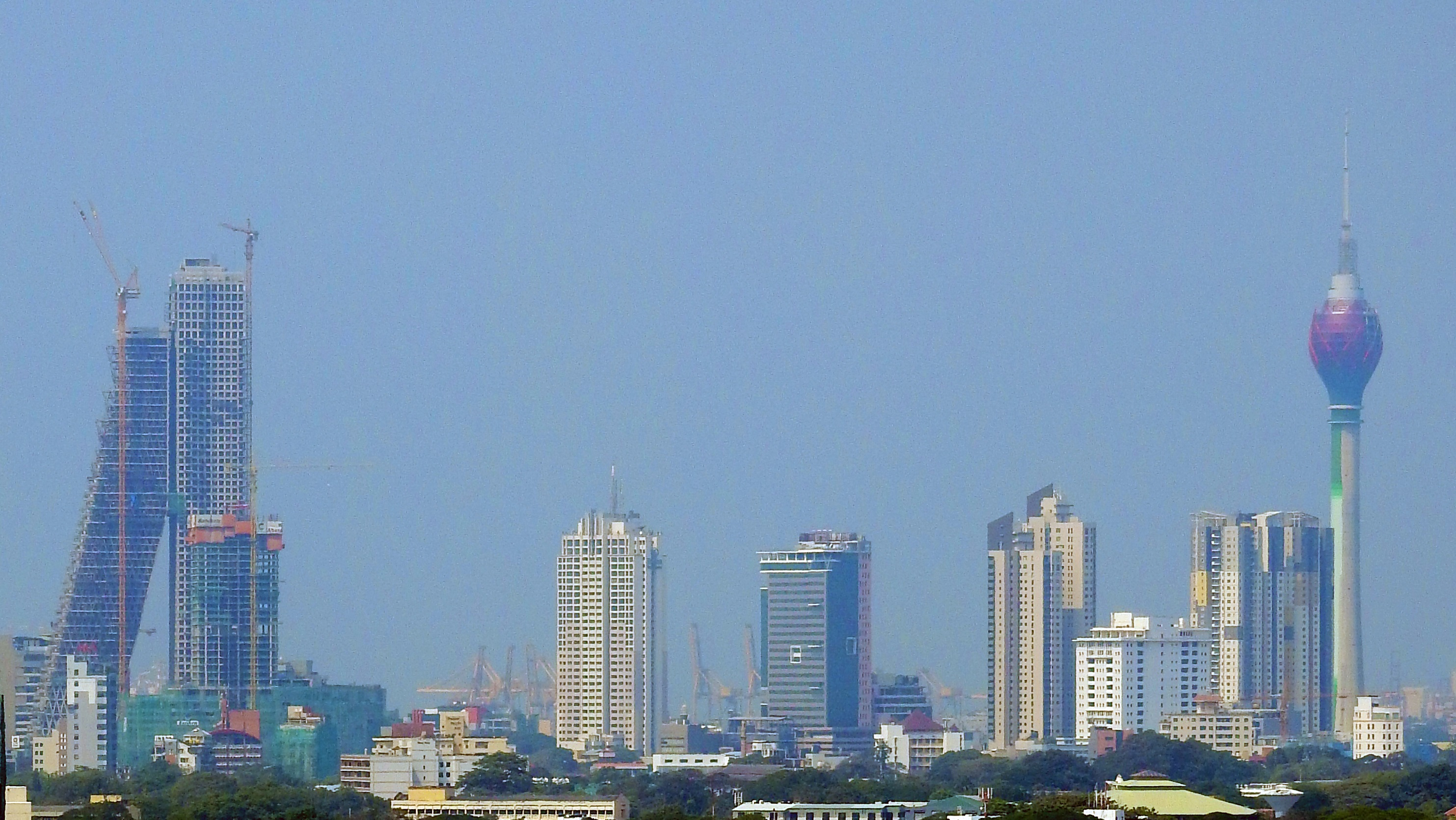 Colombo skyline in November 2017. Tallest buildings from left to right: Altair, Hilton Residence, Access Tower II, Empire Towers, Parkland Building (short white building), OnThree20, Lotus Tower.